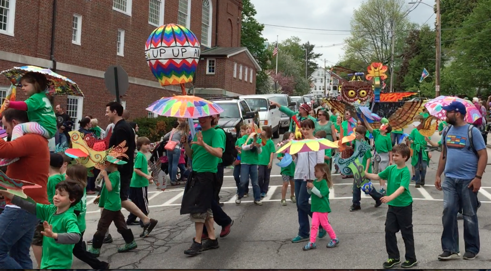 The parade of giant creatures is a highlight of Peterborough's annual Children in the Arts festival.